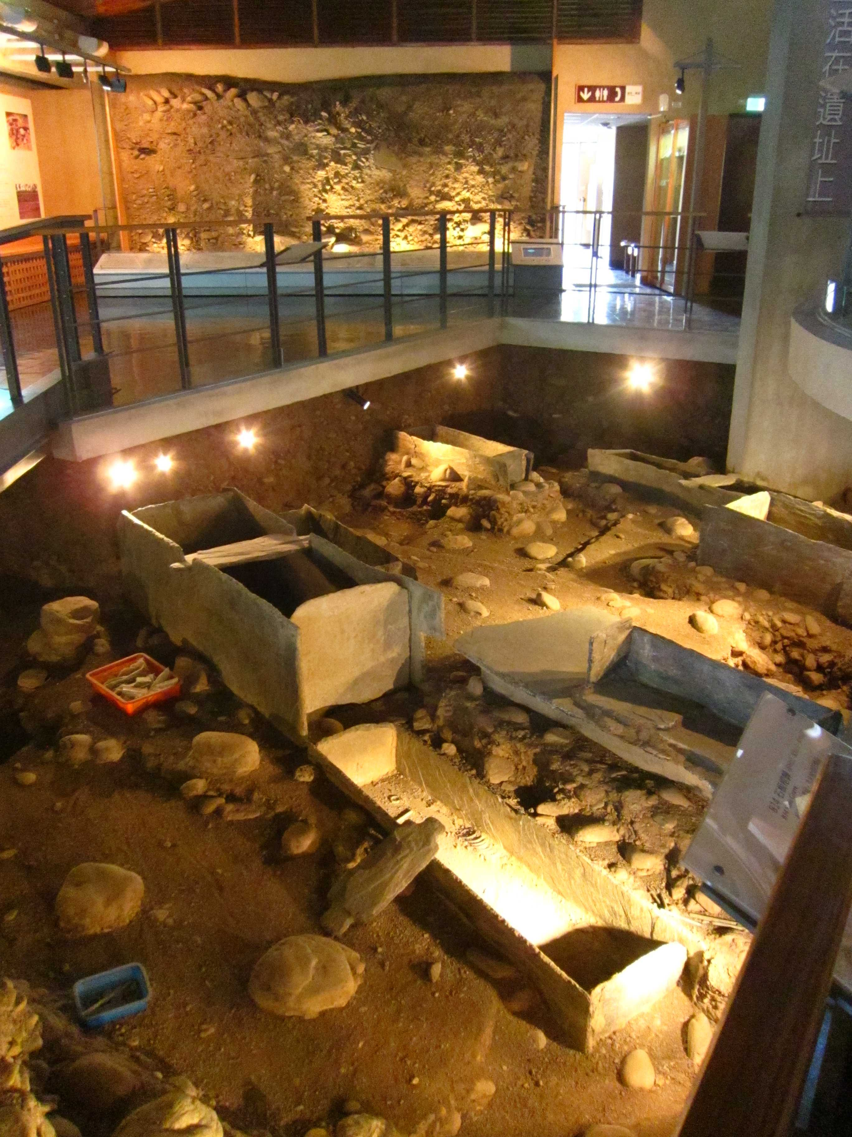 A partial excavation of the Peinan Site and the slate graves.中文（台灣）: 卑南遺址發掘現場與石棺